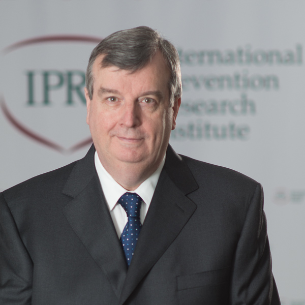 Professor Peter Boyle, epidemiologist